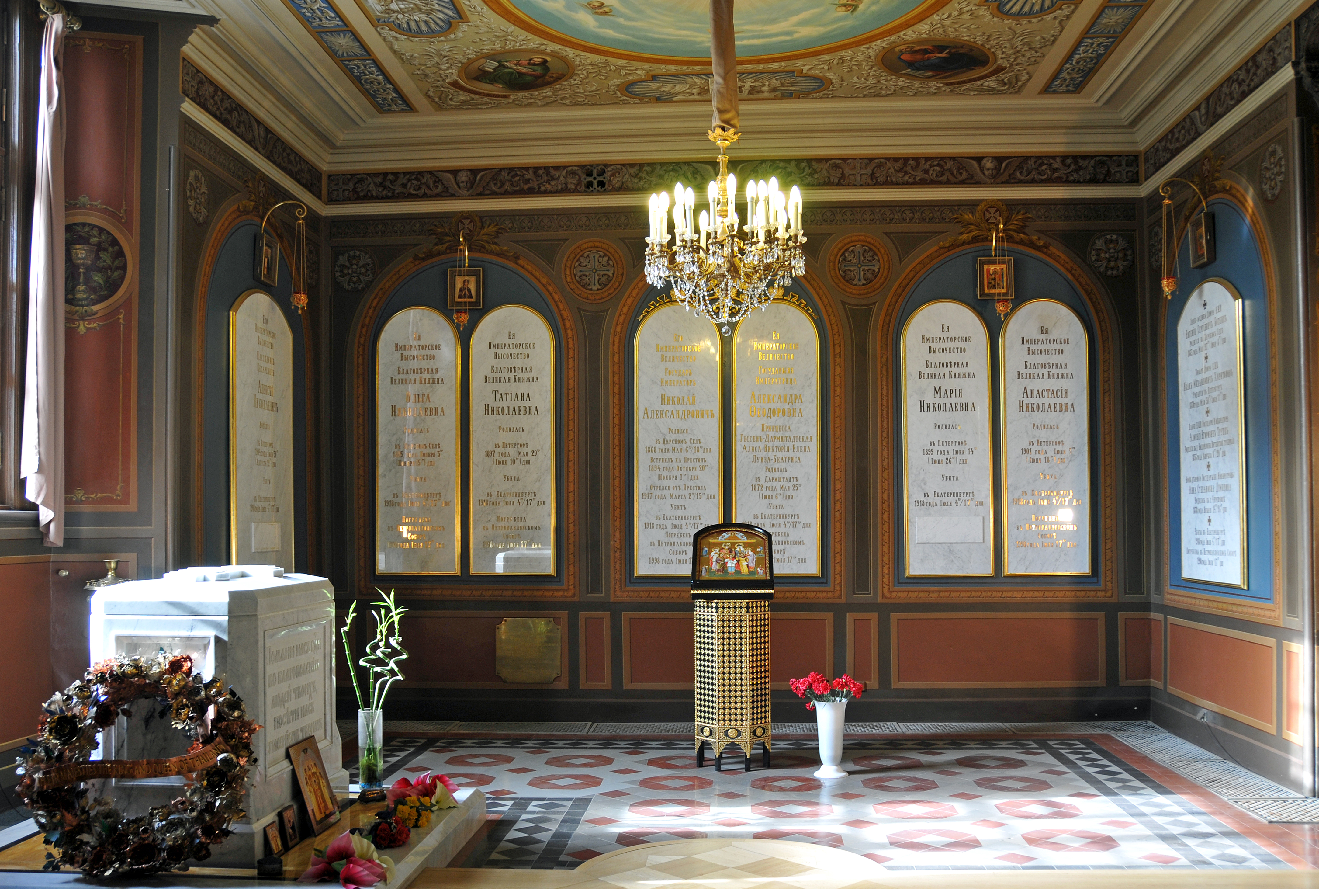 Tombstones marking the burial of Tsar Nicholas II and his family in St. Catherine's Chapel.